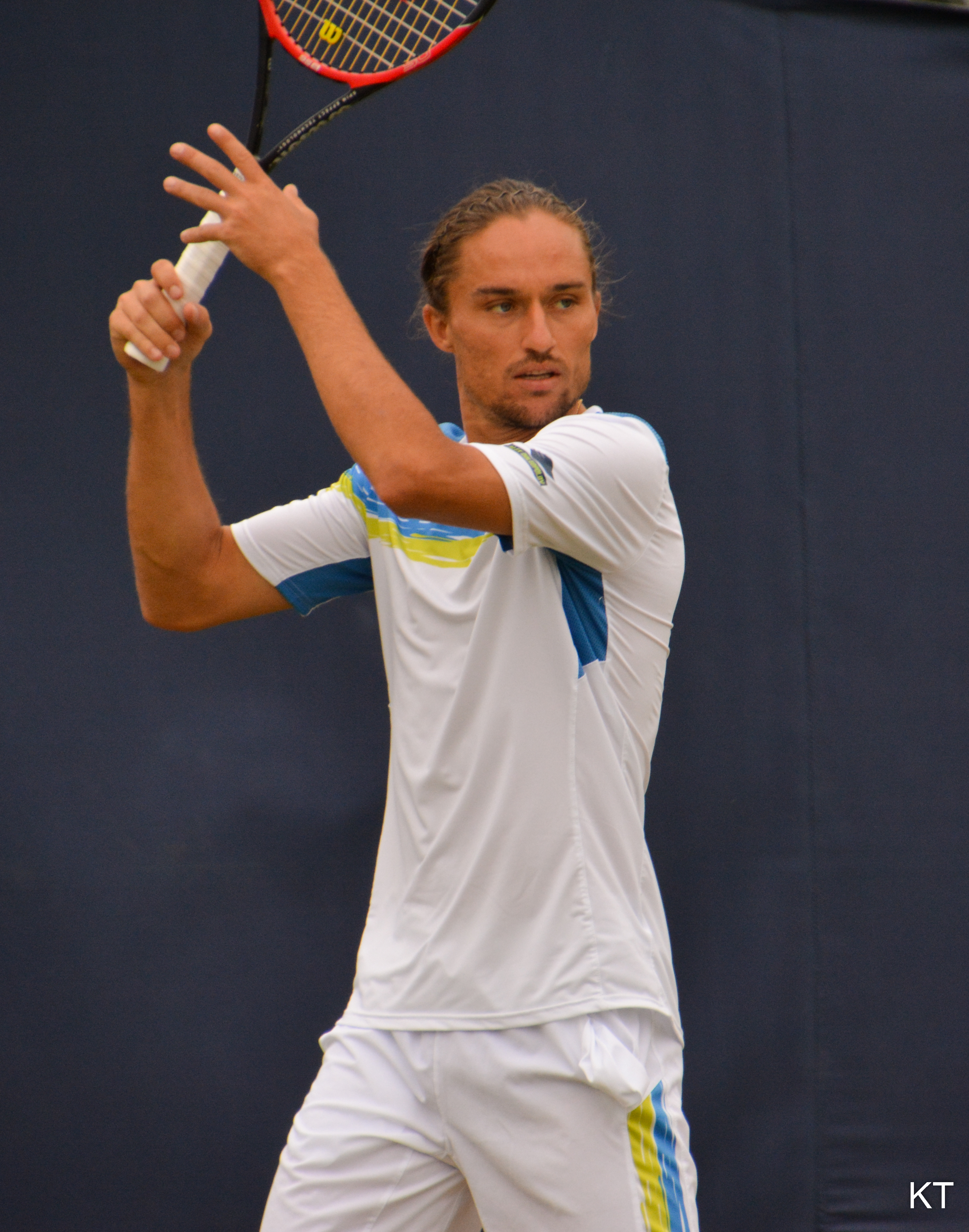 On the practice court with Jeremy Chardy. Aegon Championships, Queen's Club, June 2015.